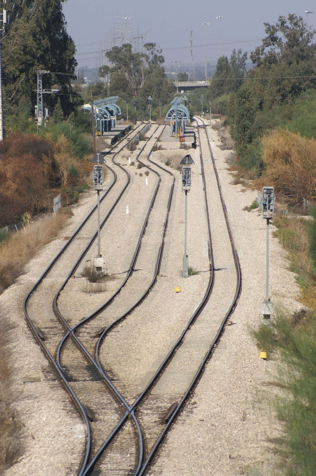 Transport in Israel